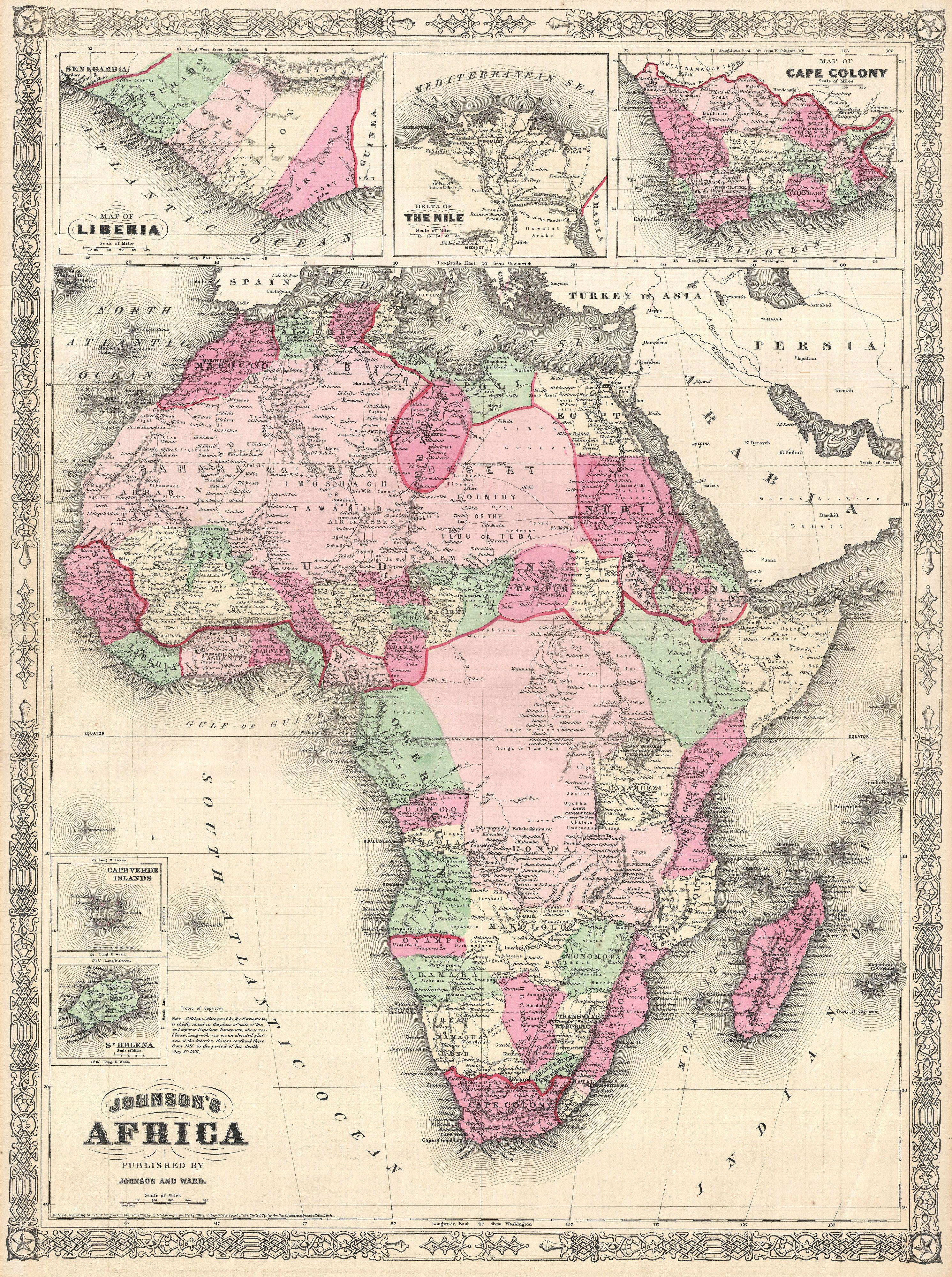 A beautiful first edition example of A. J. Johnson’s highly decorative 1864 map of Africa. The map covers the entire African continent as well as adjacent parts of Arabia and the Mediterranean. Throughout, Johnson identifies various cities, towns, rivers and assortment of additional topographical details. Johnson introduced this map in 1864 to replace the more primitive Colton mapping of Africa used in his earlier atlases. This map accommodates recent discoveries and explorations in Africa. It is consequently the first of Johnson’s Africa series to accurately represent Lake Victoria and Mt. Kilimanjaro. Features the fretwork style border common to Johnson’s atlas work from 1864 to 1869. Published by A. J. Johnson and Ward as plates 99-100 in the 1864 edition of Johnson’s New Illustrated Family Atlas . This is the first edition of the Johnson’s Atlas to bear the Johnson & Ward imprint and the only edition to identify the firm as the “Successors to Johnson and Browning (Successors to J. H. Colton and Company)”. Dated and copyrighted, “Entered according to Act of Congress in the Year 1864 by A. J. Johnson in the Clerks Office of the District Court of the United States for the Southern District of New York.